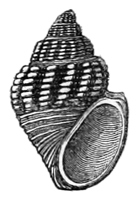 Drawing of apertural view of a shell described as Paramelania crassigranulata. Paramelania crassigranulata has been recognized as a form of Paramelania damoni by Brown (1994).[1] ↑ Brown D. S. (1994). Freshwater Snails of Africa and their Medical Importance. Taylor & Francis. ISBN 0 7484 0026 5.